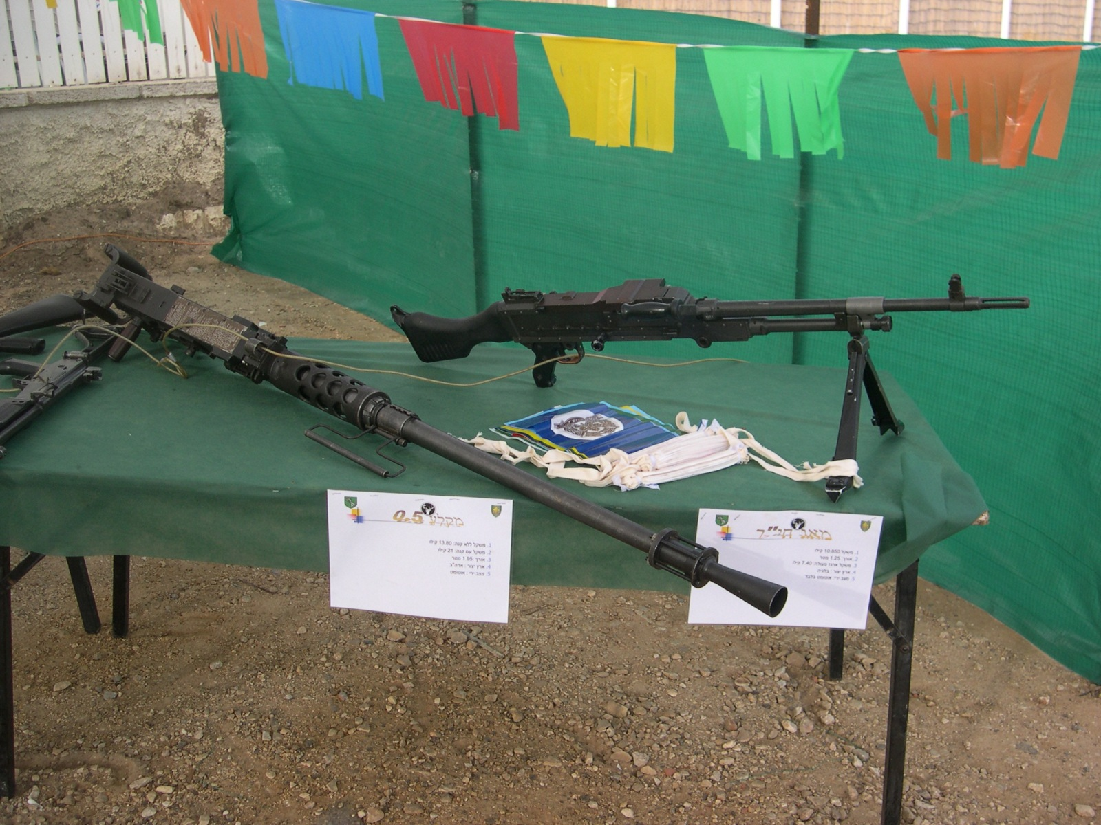 M2 (machine gun) and FN MAG machineguns, in use by the Israel Defense Forces